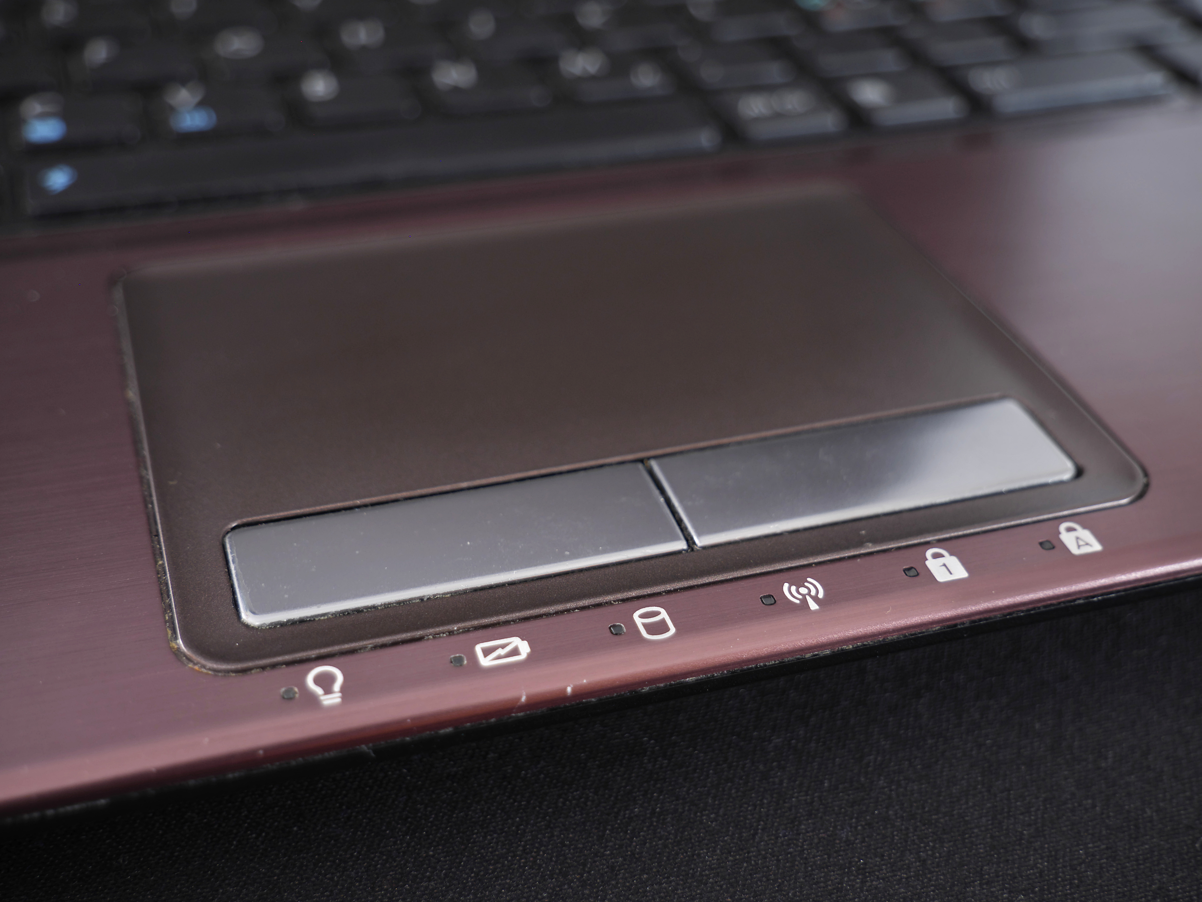 Laptop touchpad.